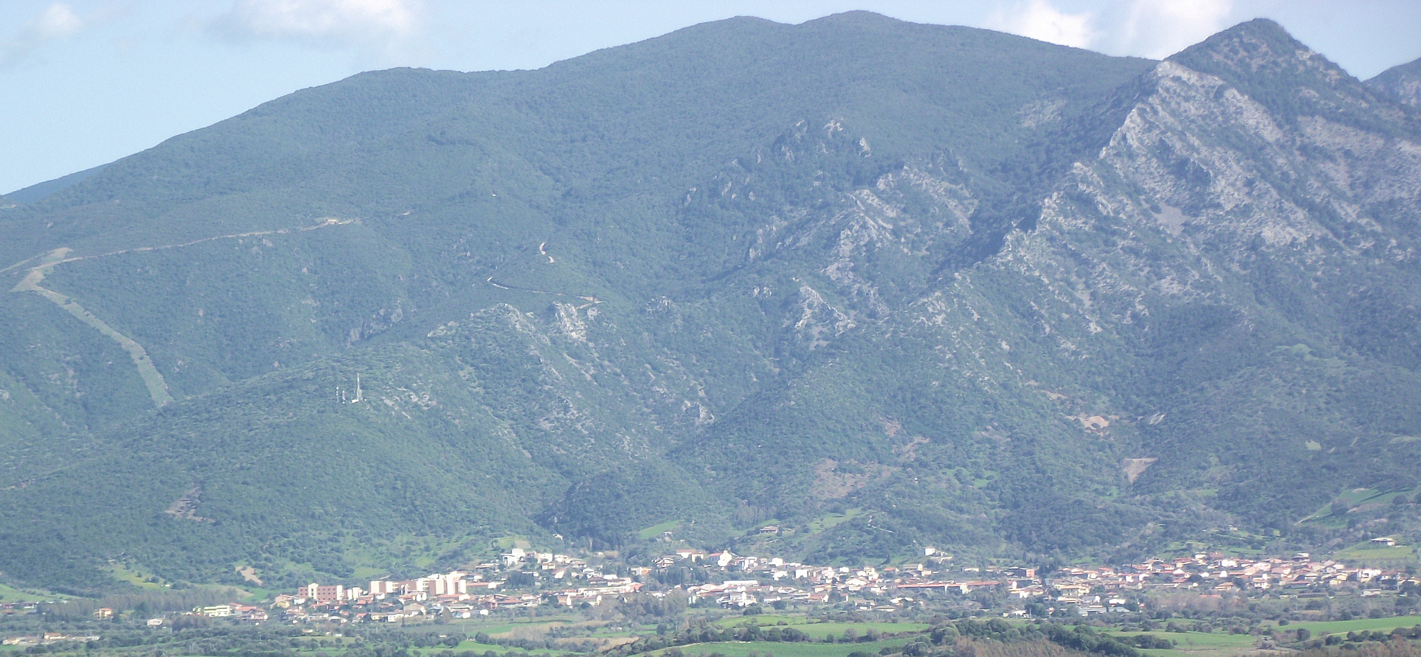 View of Nuxis from Narcao, in Sardinia, Italy